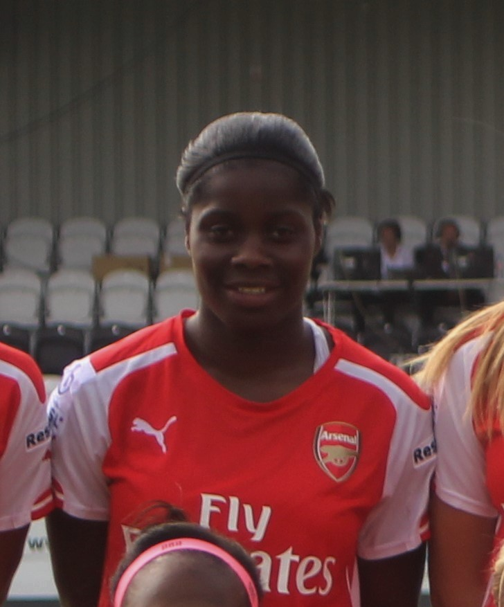 Arsenal Ladies line up for a team photo before the continental cup game against Notts County Ladies